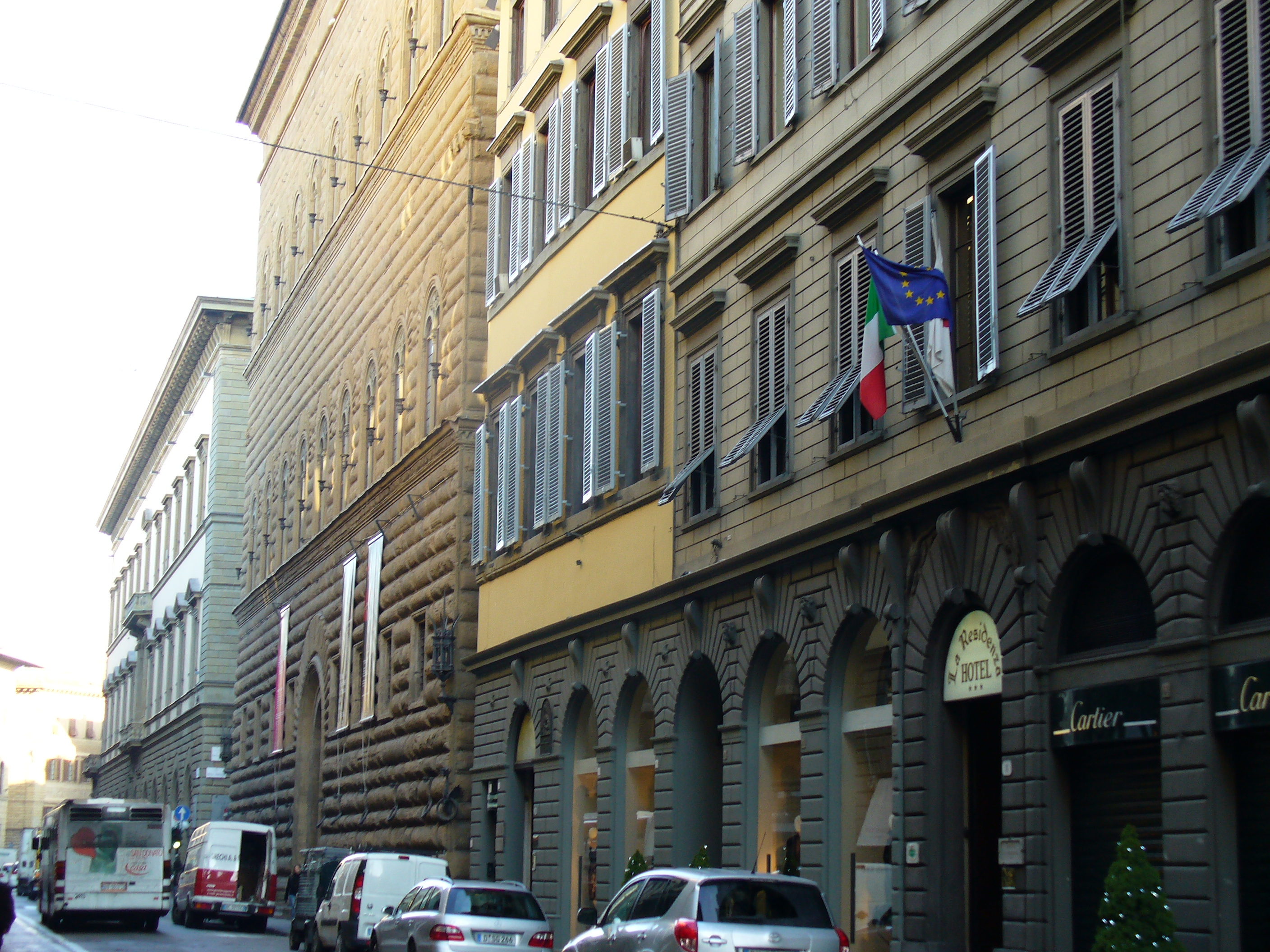 Via de' Tornabuoni